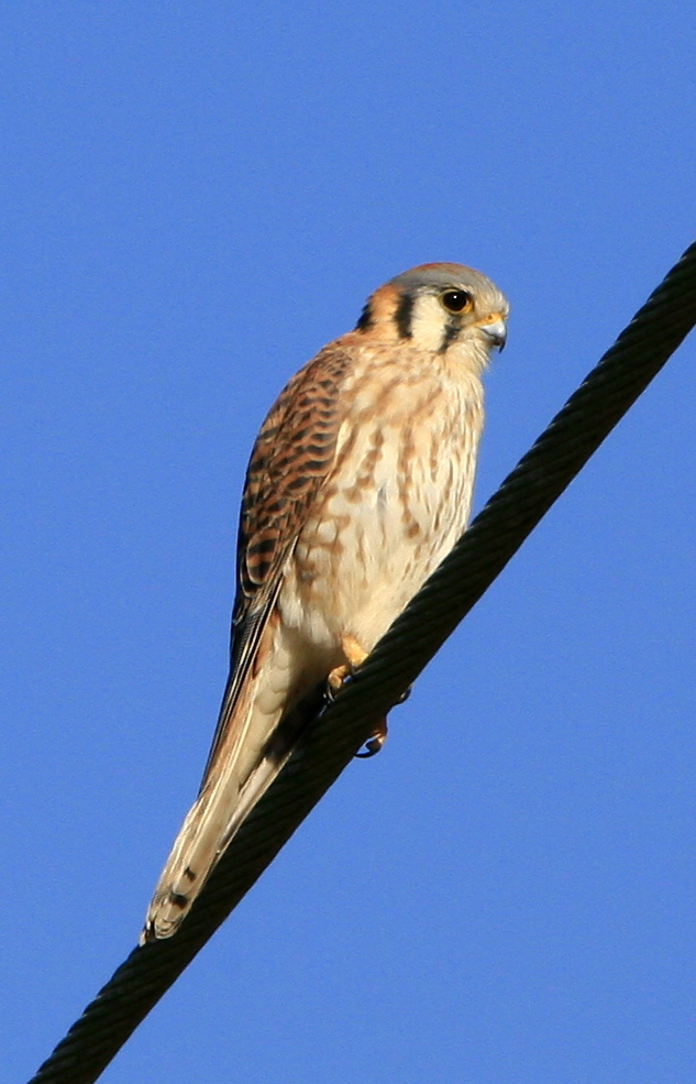 American Kestrel (Falco sparverius), from Turri Road intersection with the Morro Bay Estuary (California)